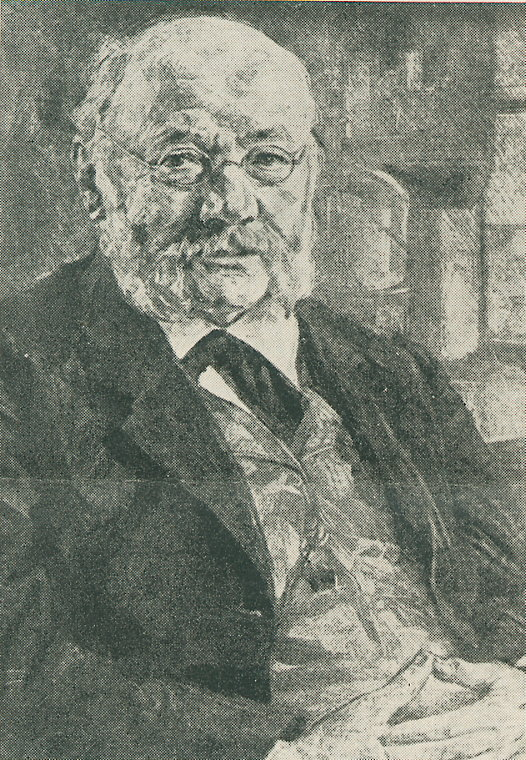 Max Jaffé (1841 - 1911) was Phamaccologist at the University of Königsberg/ Pruassia, todays Kaliningrad/Prussia.